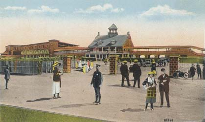 c. 1907 Post Card of Jamaica Racetrack at